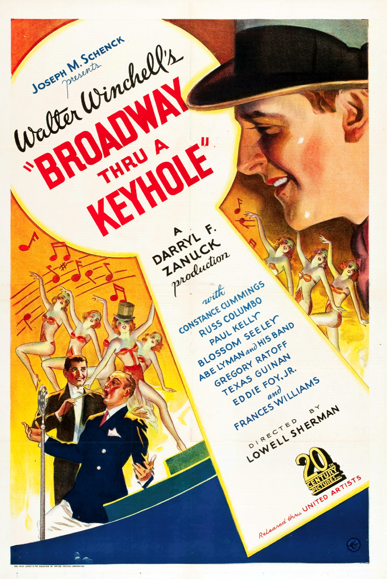 Poster for the 1933 film Broadway Through a Keyhole. There are no copyright marks. At bottom left is This paper leased to the exhibitor by United Artists Corporation. At lower right is the logo for the Miner Litho Co.-they printed the poster.